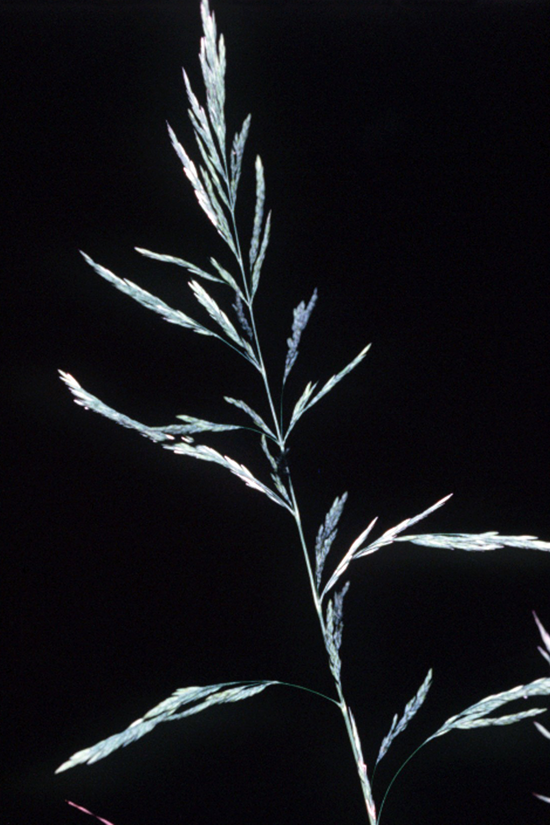 ..Cinna arundinacea.. L. - sweet woodreed